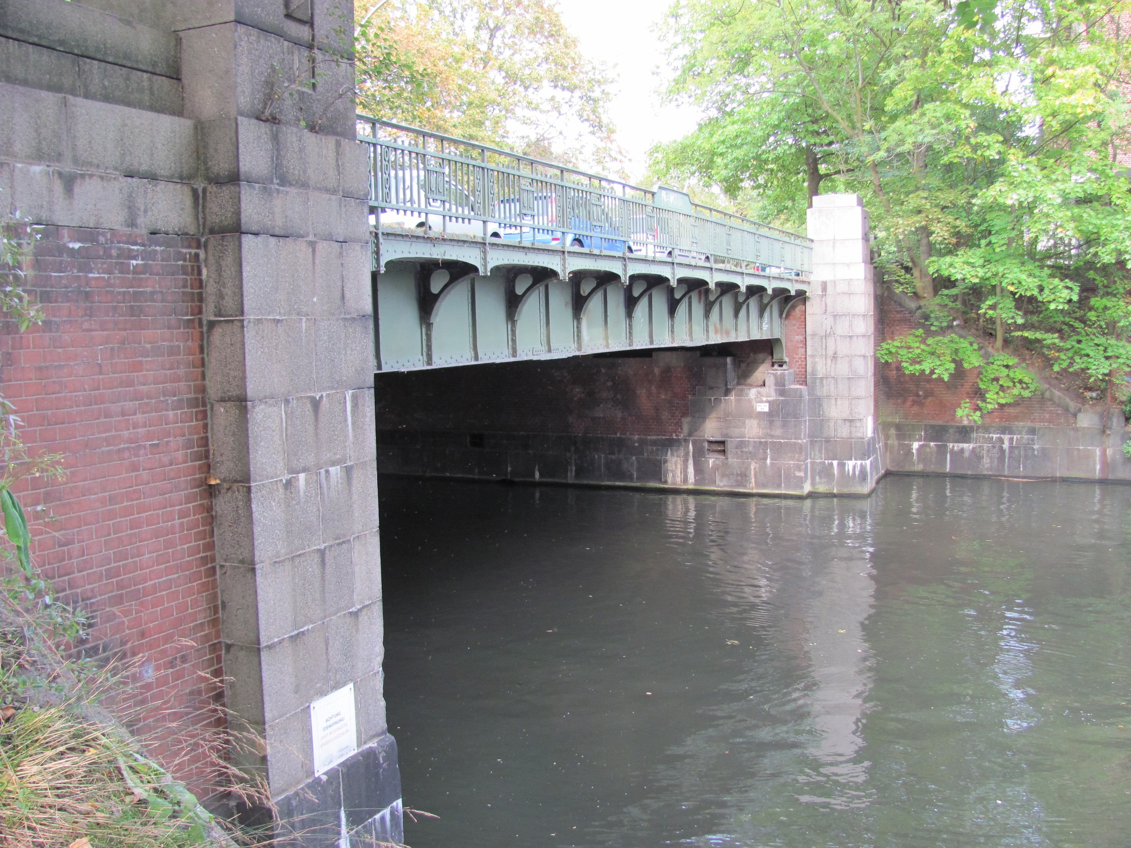 Hellbrookstraßenbrücke in Hamburg, Germany